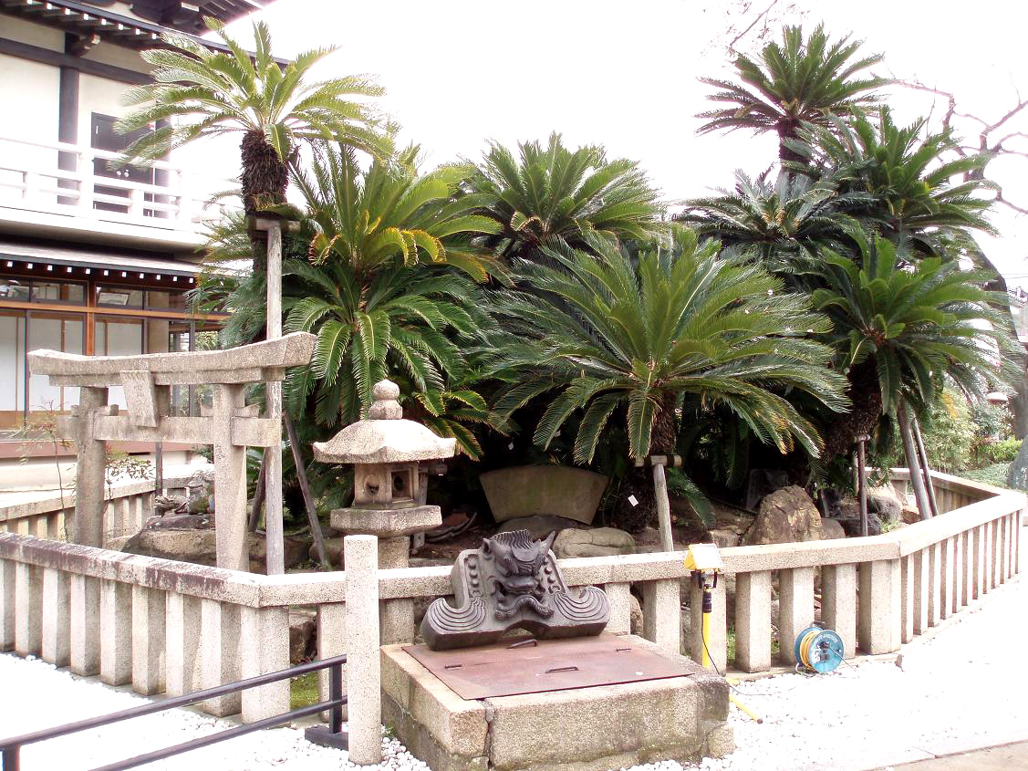 Over 1100 years old Cycas revoluta at Myōkoku-ji, Sakai, Japan